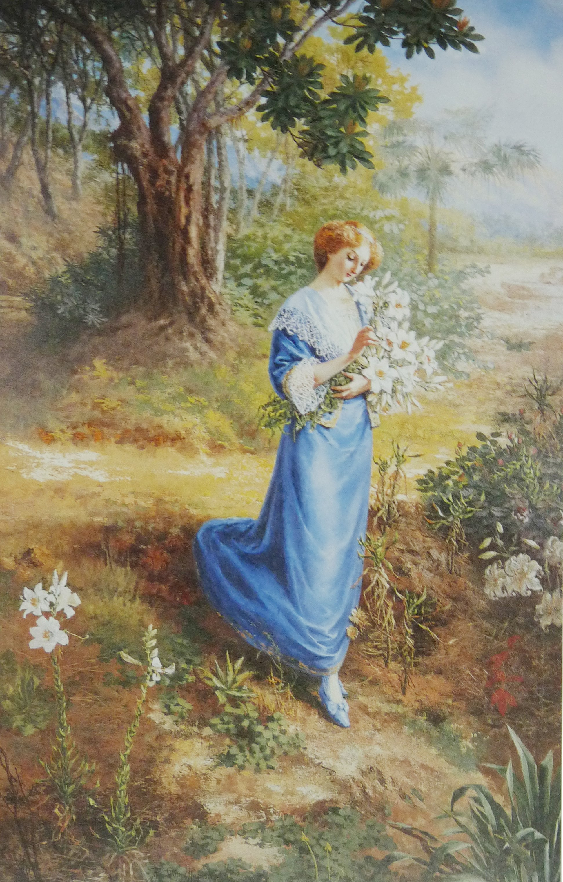 Kiyohara Tama (Eleonora Ragusa, Ragusa Tama, Kiyohara Otama, Kiyohara Tamayo) "Spring"